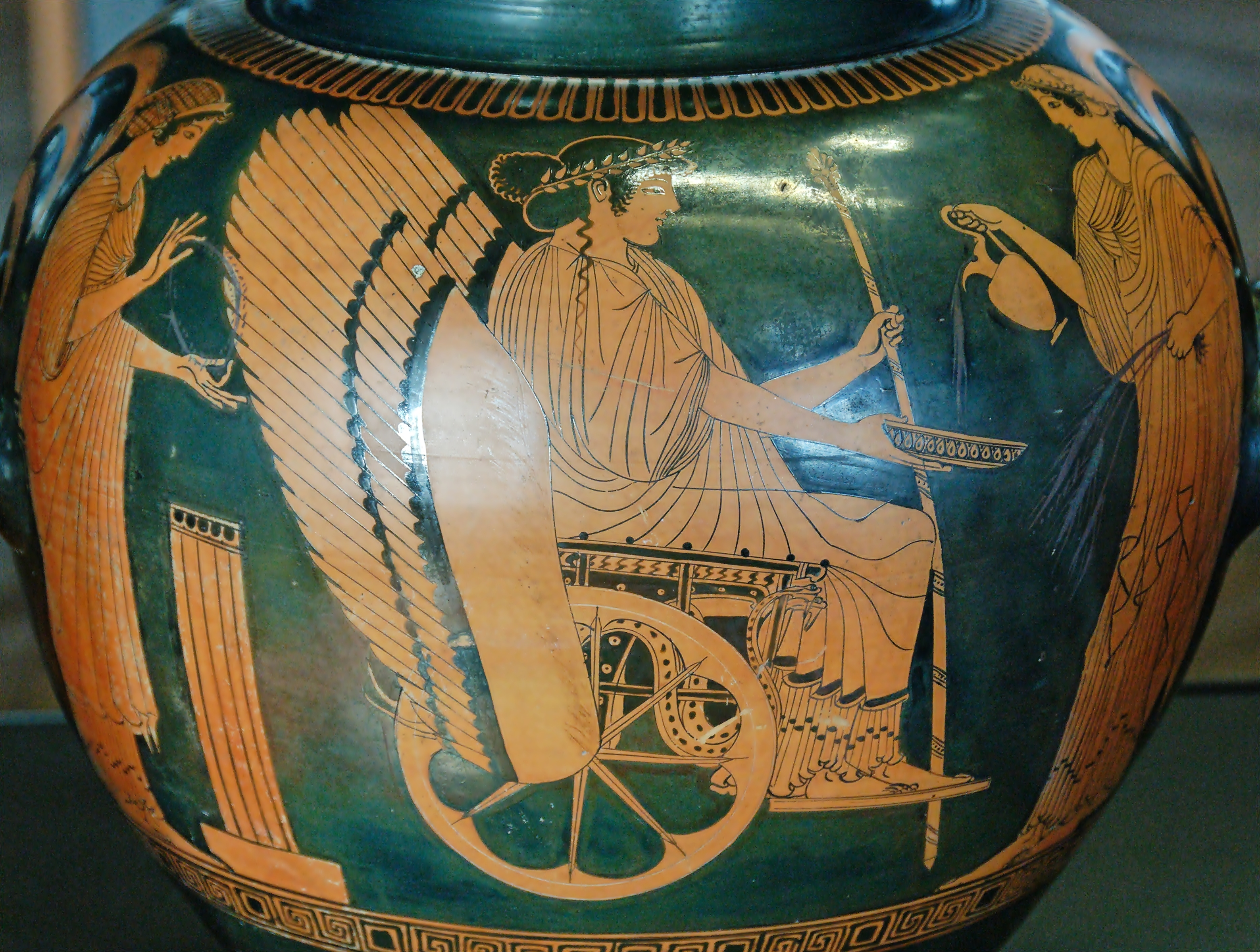 Triptolemos' departure. Side A from an Attic red-figure stamnos, ca. 480 BC. From Canino.